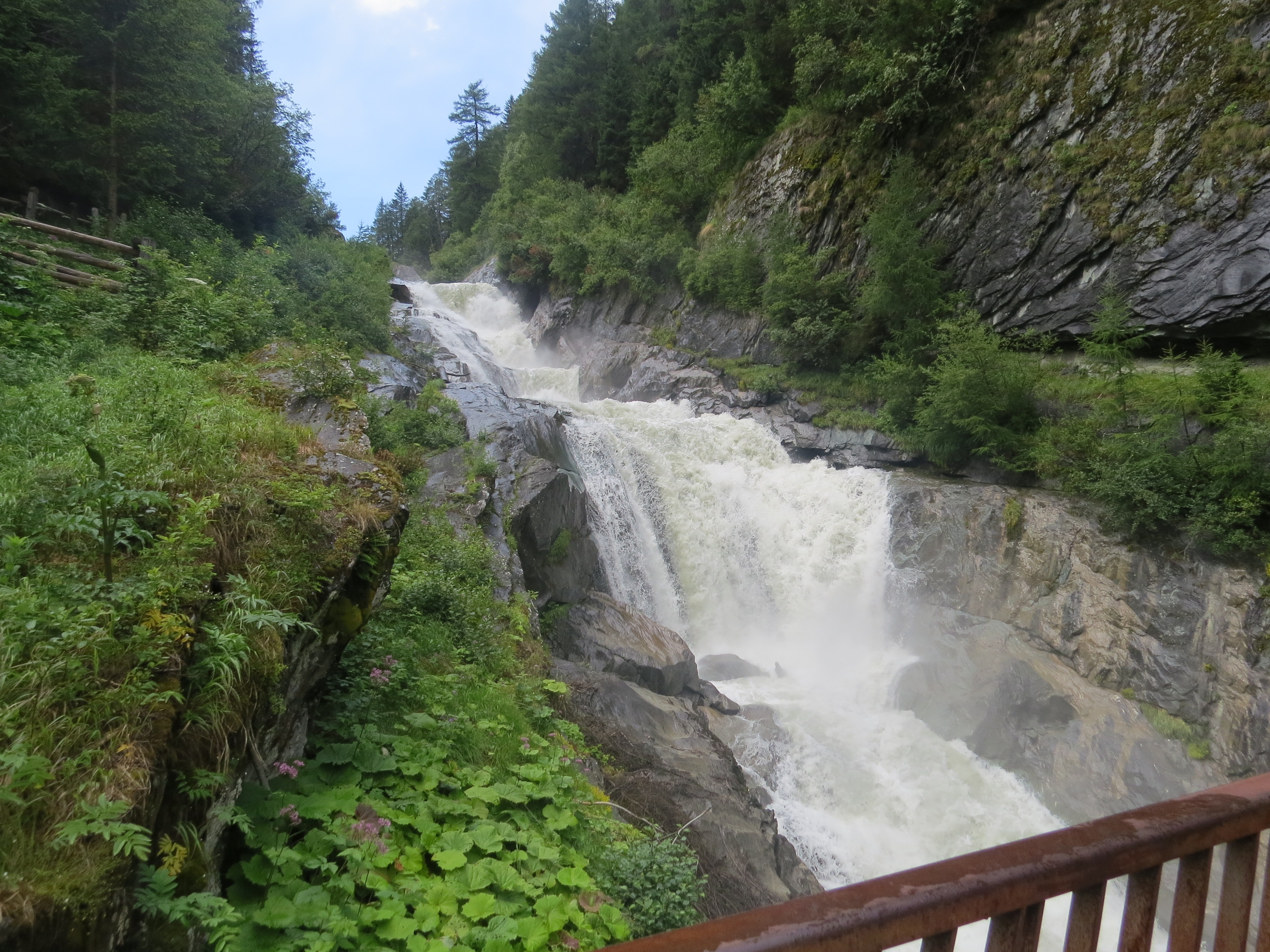 Umbal falls at Prägraten am Großvenediger, Austria